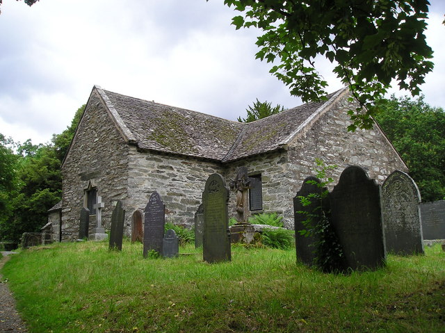 St Michael's church, Betws-y-Coed, Conwy, Wales. This small church is situated on the edge of the Afon Conwy next to the Suspension Bridge and opposite the railway station.